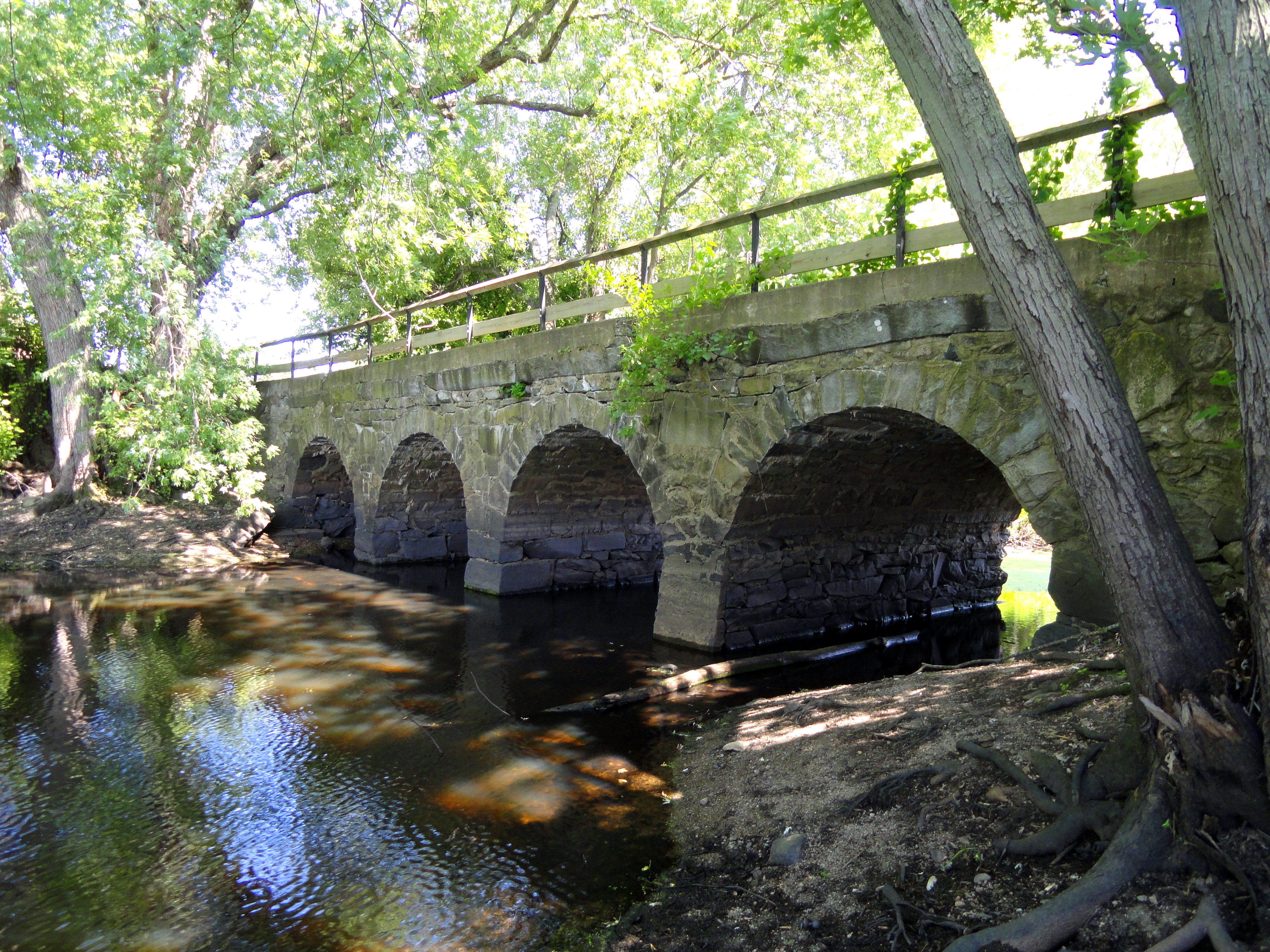 Old Town Bridge over the Sudbury River, built 1791 by William Russell, near Wayland Country Club and Baldwin Pond, Wayland, Massachusetts, USA.